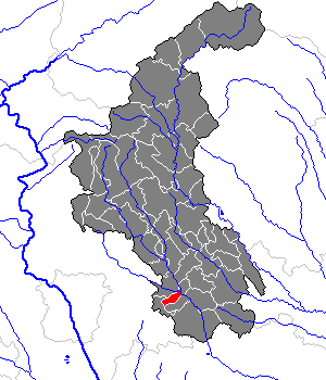 This map shows the area of the Gemeinde (municipality) Ungerdorf in the Bezirk (district) Weiz, Styria, Austria.